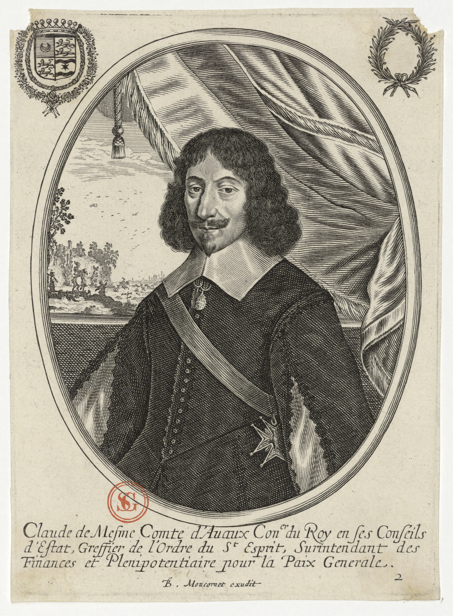 Portrait of Claude de Mesmes comte d'Avaux